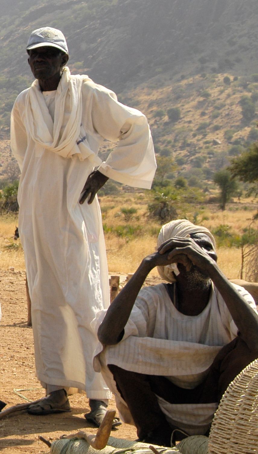 Men wearing jellabiya in Sudan